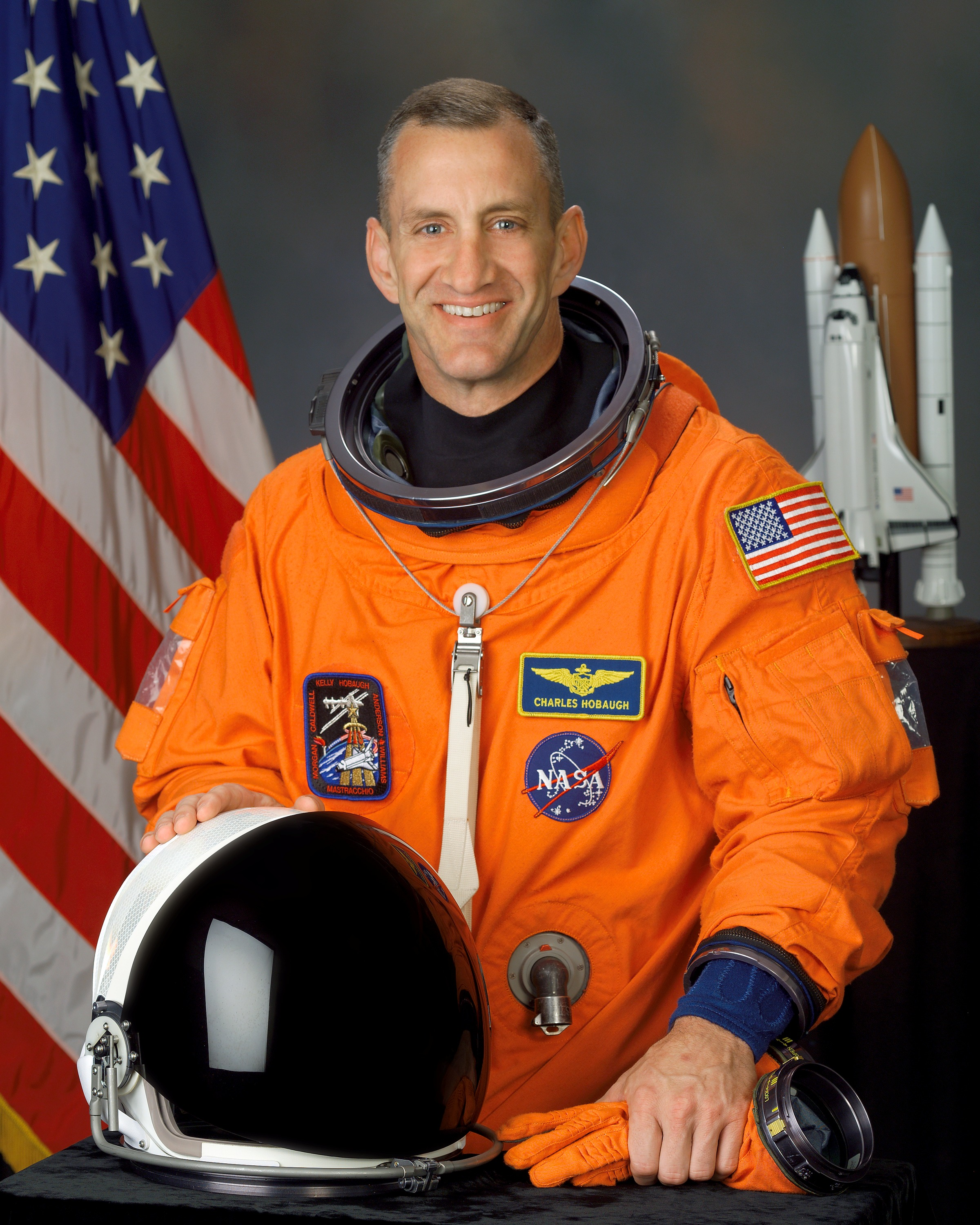 Astronaut Charles O. Hobaugh, pilot